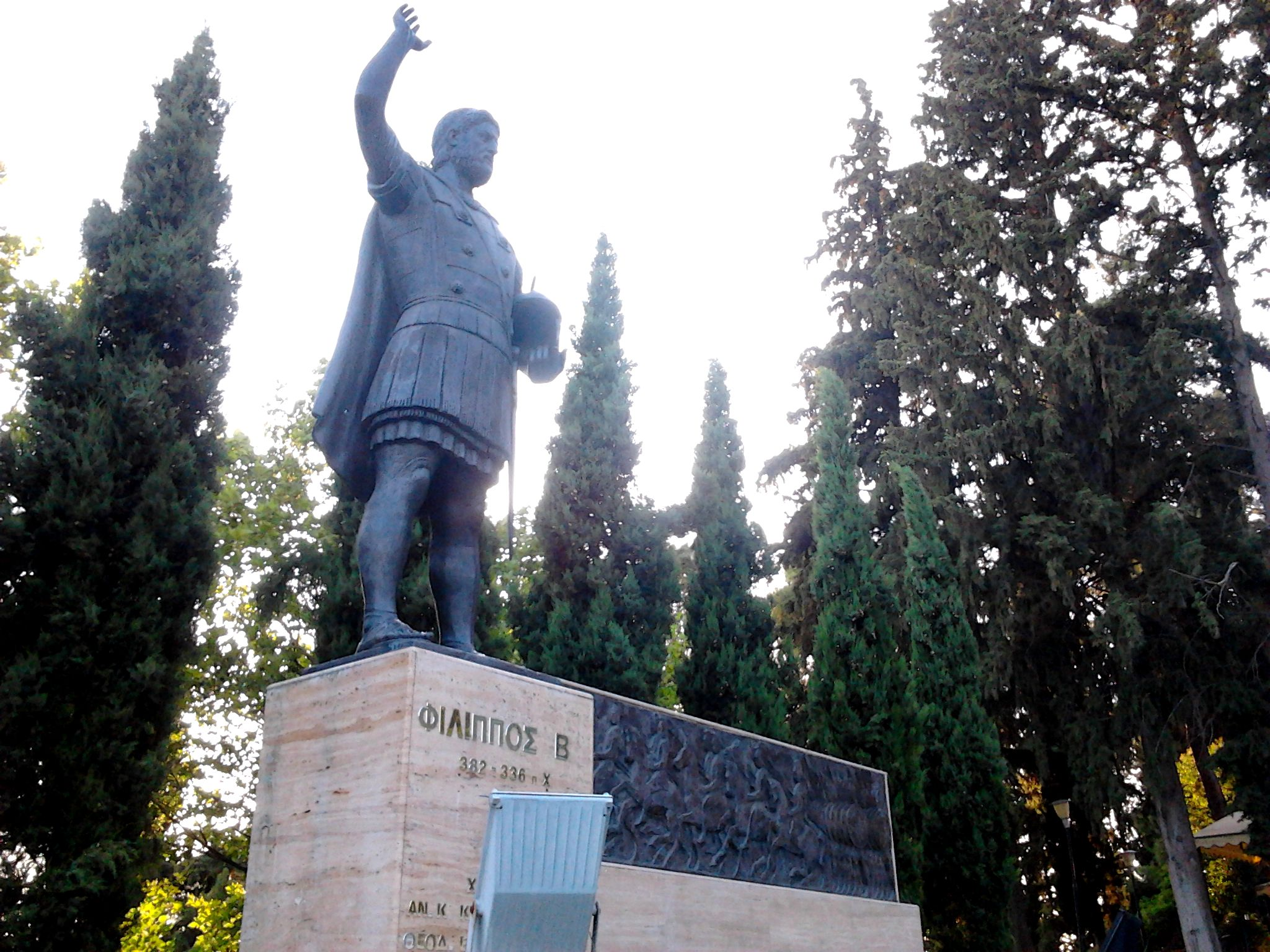 Philip the macedon - Giannitsa